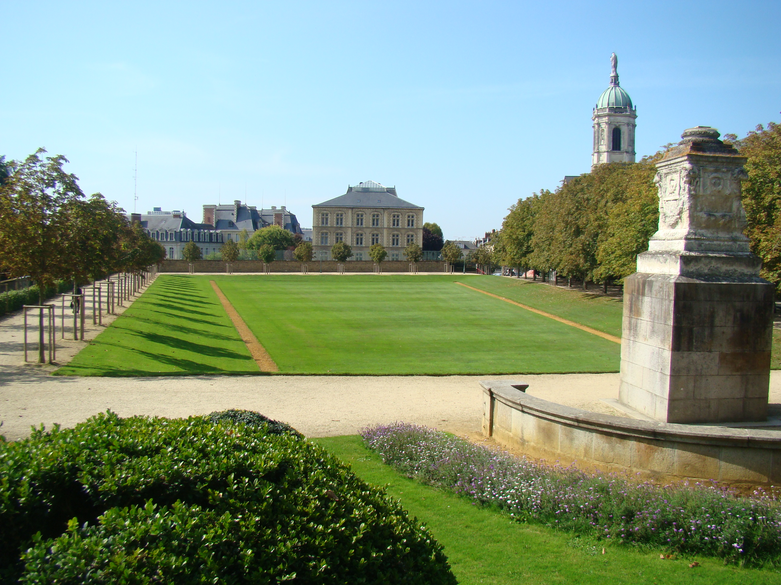 Carré (square) Du Guesclin. Look out onto boulingrin (bowling green) and the base of the column Vanneau-Papu (on the right).